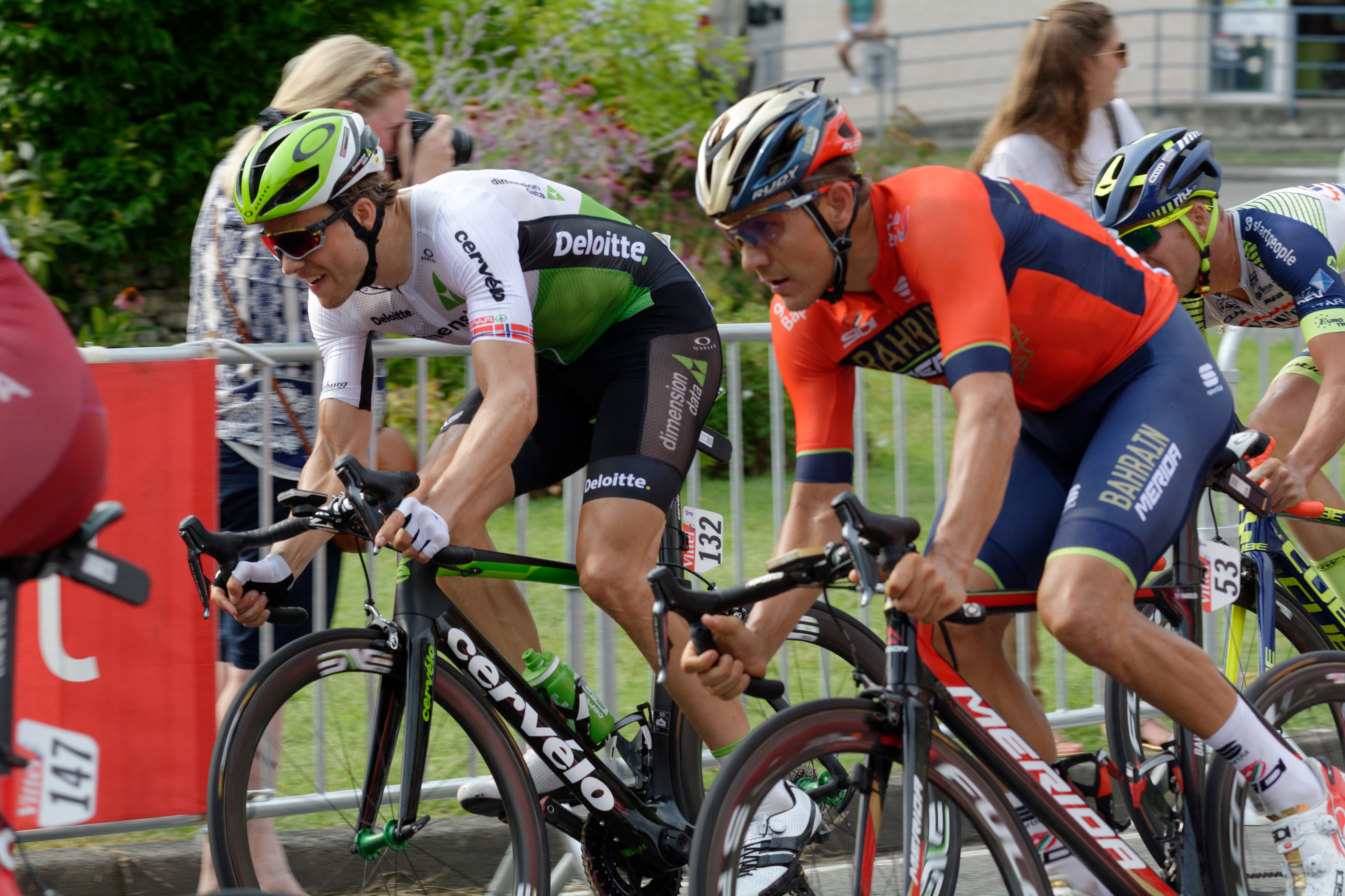 2018 Tour de France